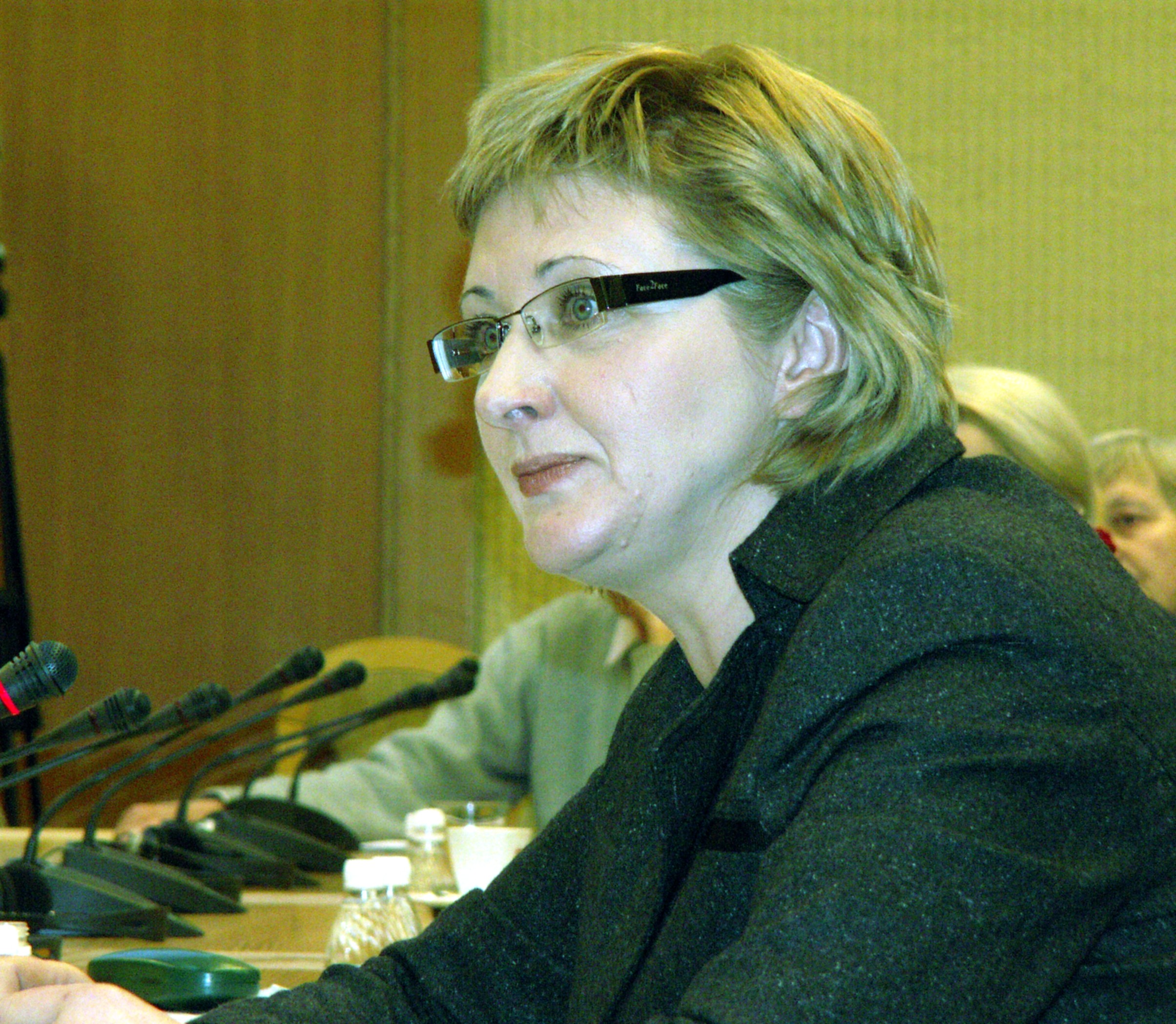 Laima Mogenienė, Member of Seimas 2004-2008, Lithuania